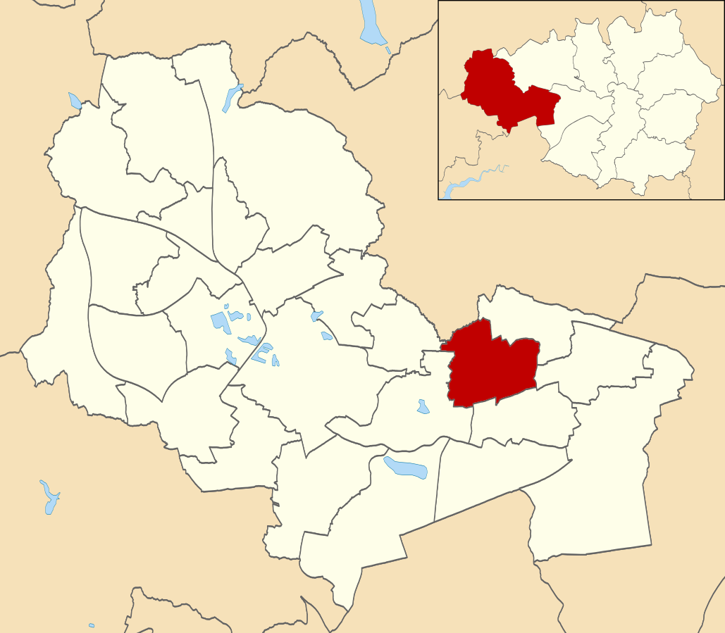 Map showing the location of Atherleigh ward within Wigan Metropolitan Borough Council